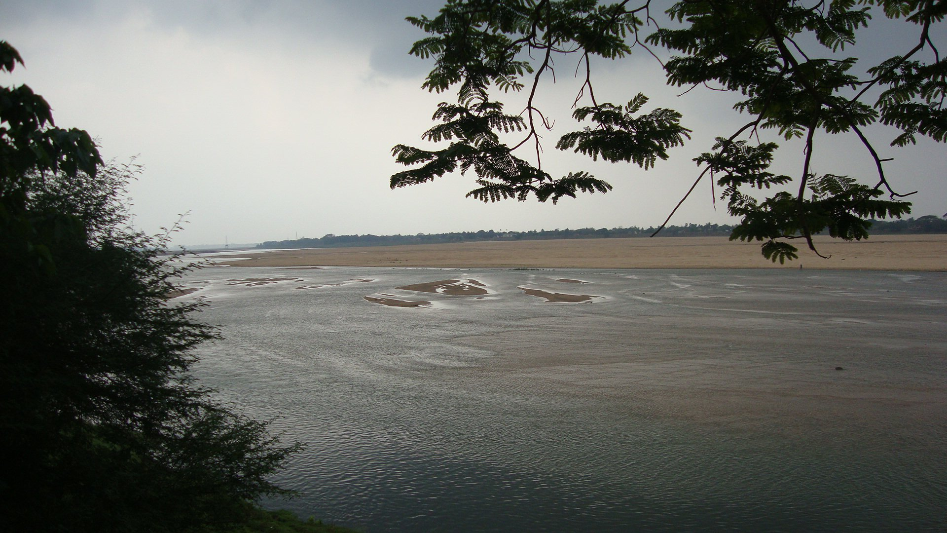 kathajori riverଓଡ଼ିଆ: କାଠଯୋଡି ନଦୀ